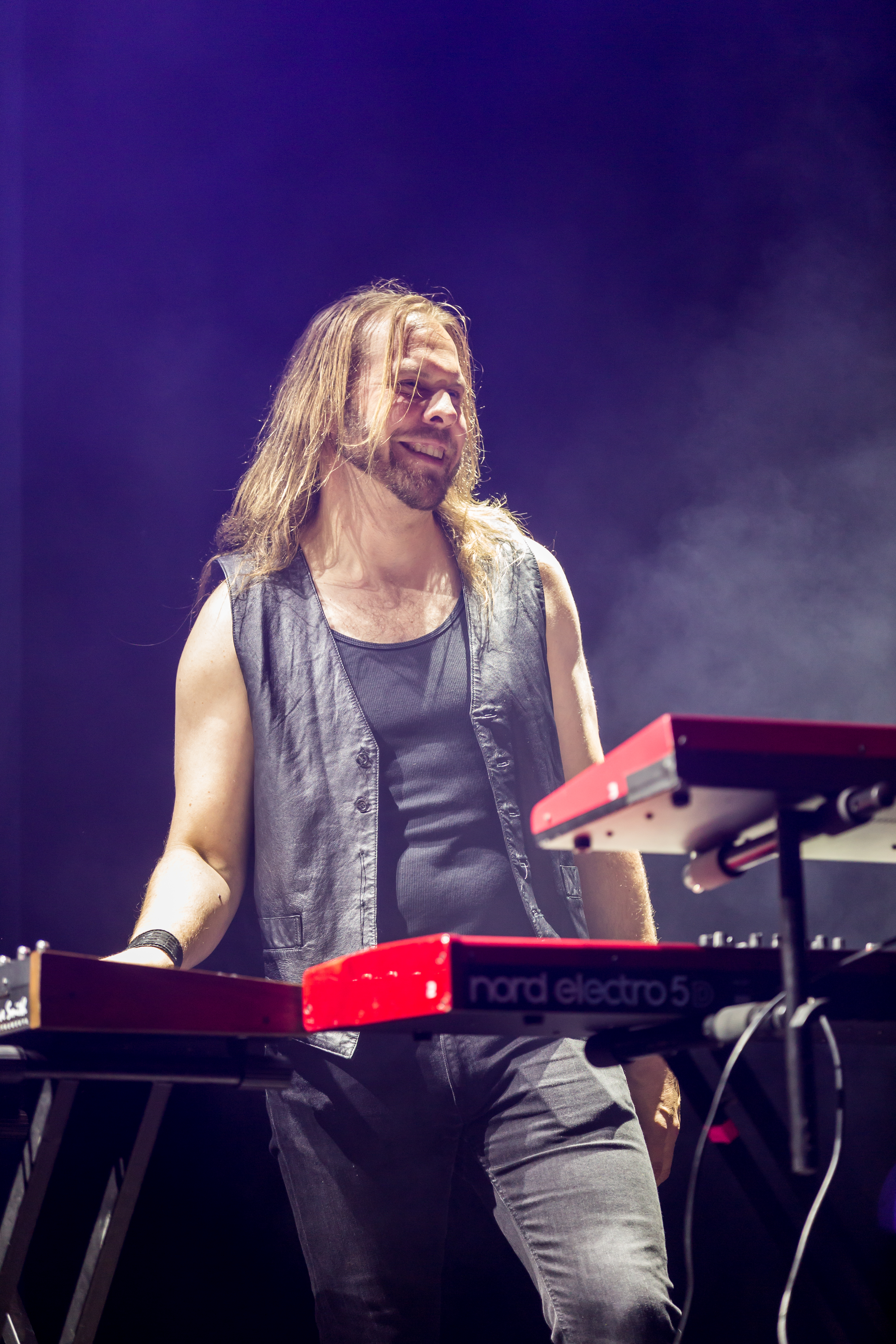 The Finnish metal band Amorphis at the Metal Frenzy 2017 in Gardelegen/Germany.